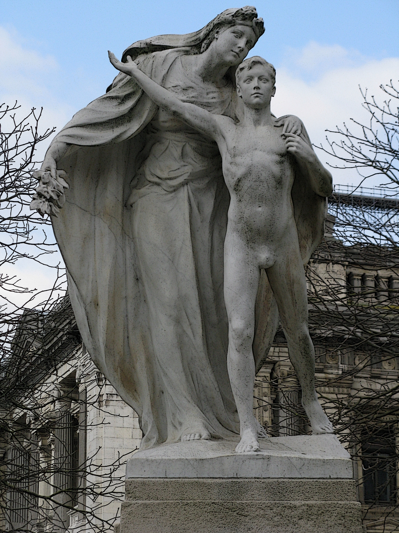 Statue in Commemoration of the Victims of Sinking of Belgian Naval Training Ship - 1905